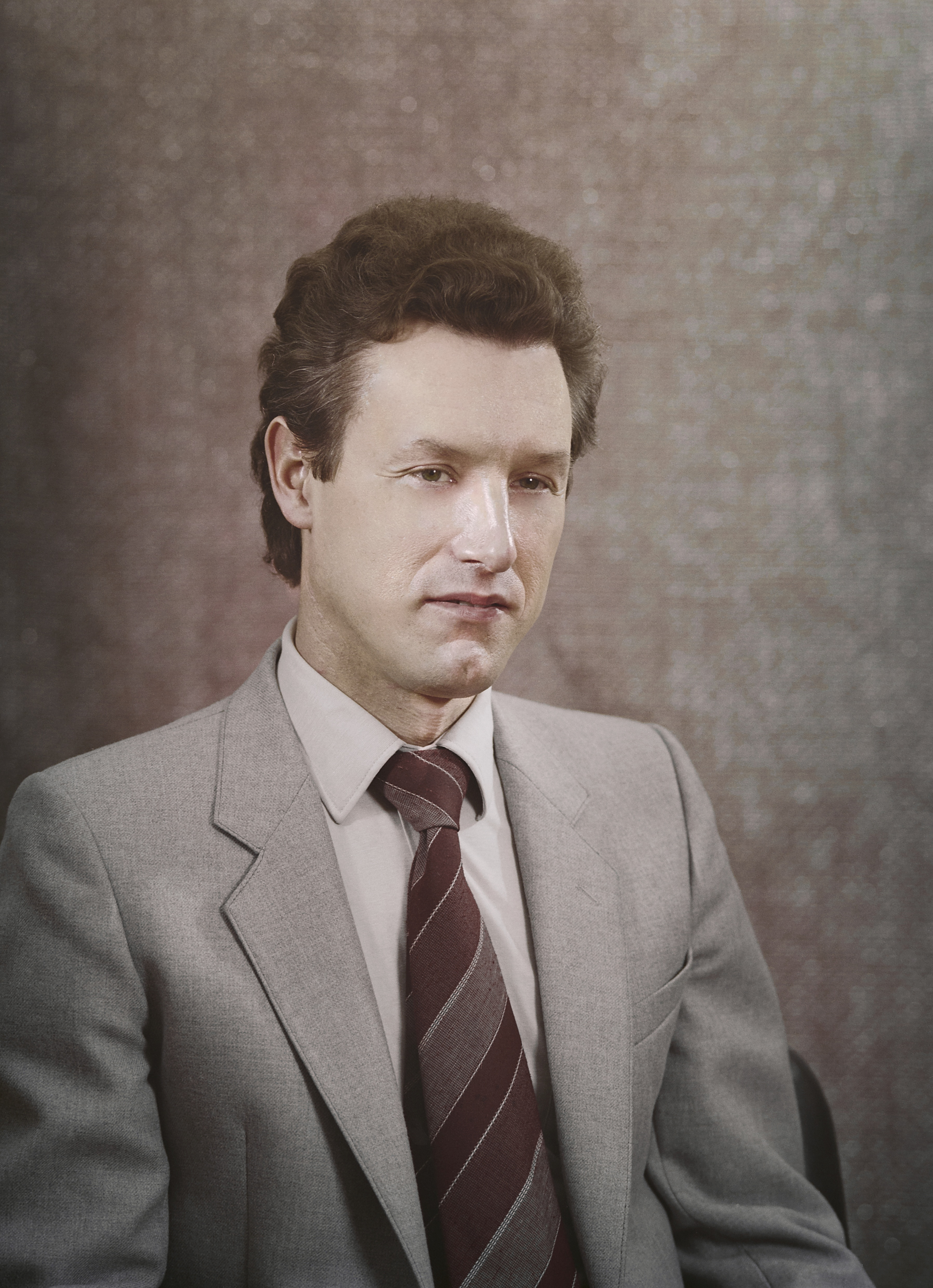 Photograph of the Finnish surgeon Rolf Nordström (1947–).